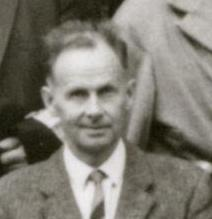 Harald Wergeland, Copenhagen, July 1963